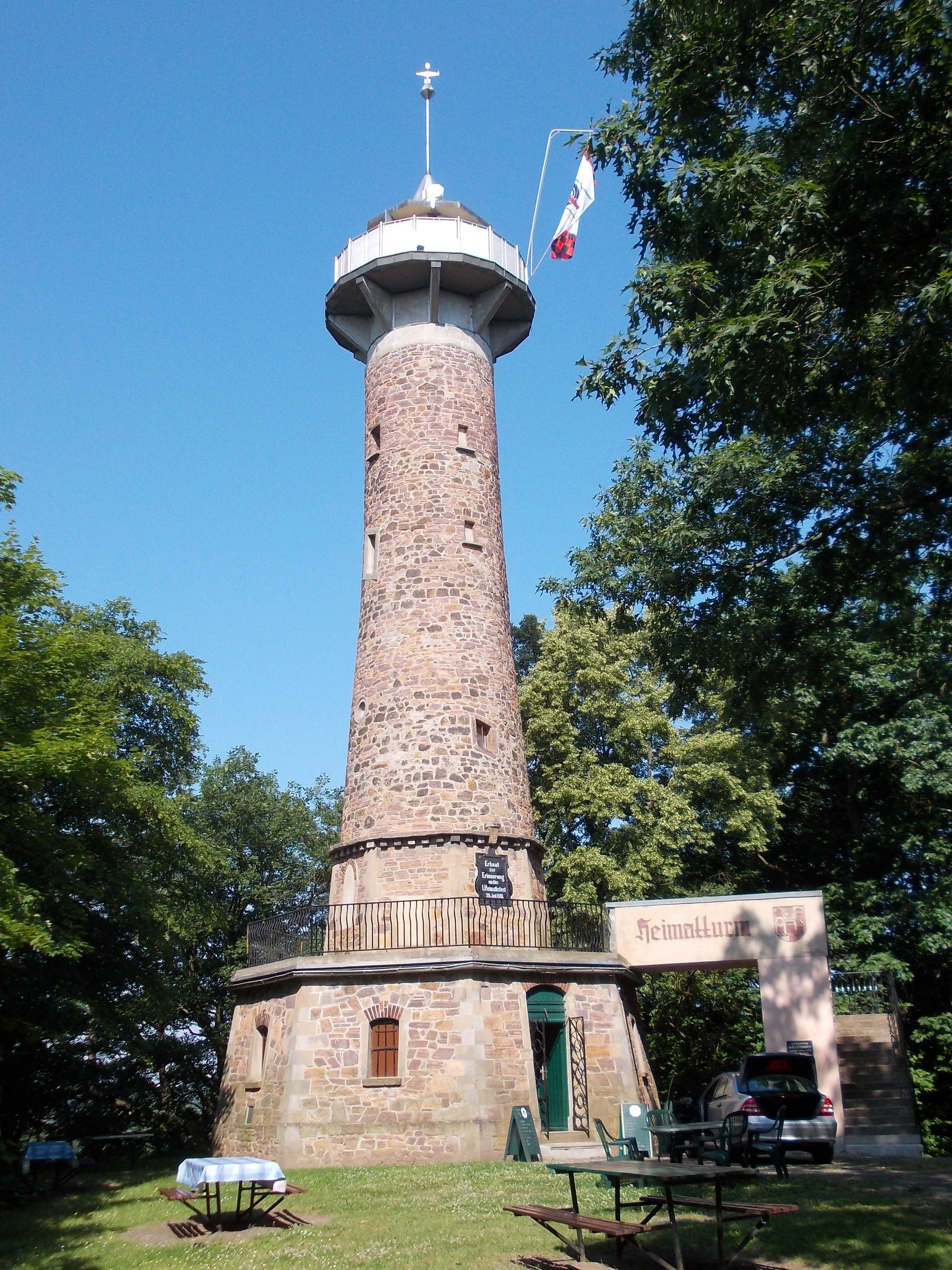 Heimatturm observation tower near Colditz (Leipzig district, Saxony)